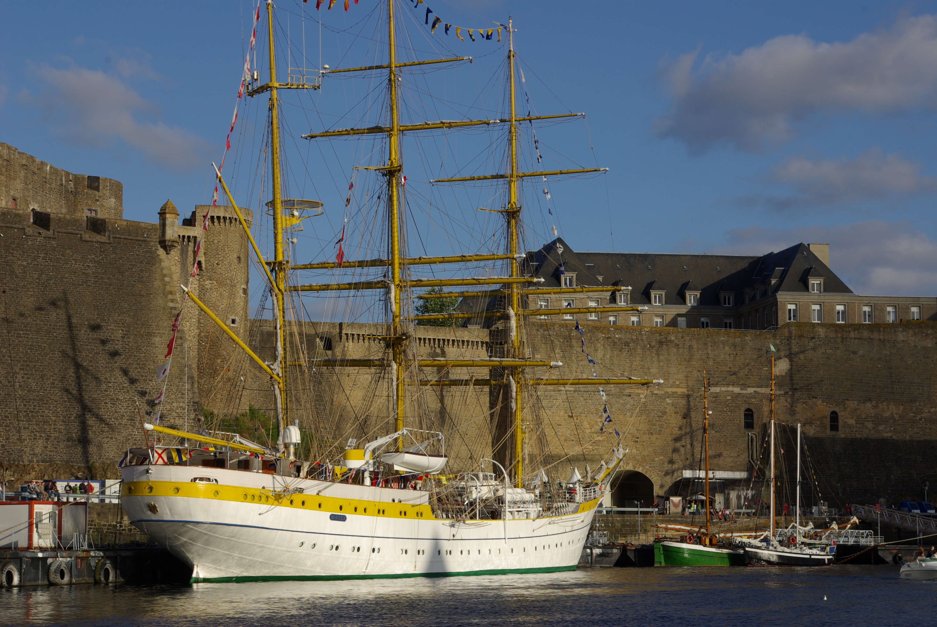 Mircea at Brest 2008